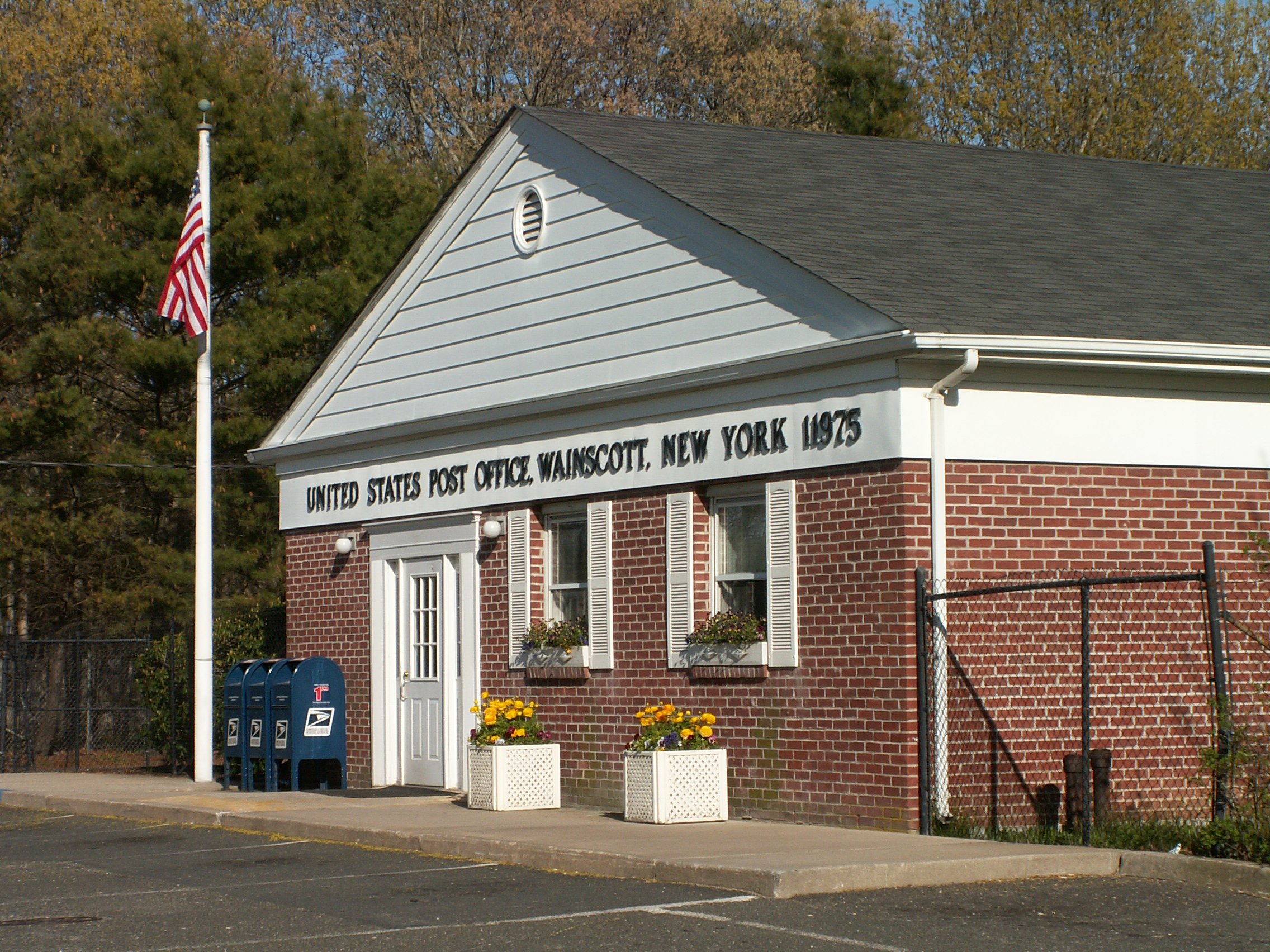 Wainscott, New York, Post Office